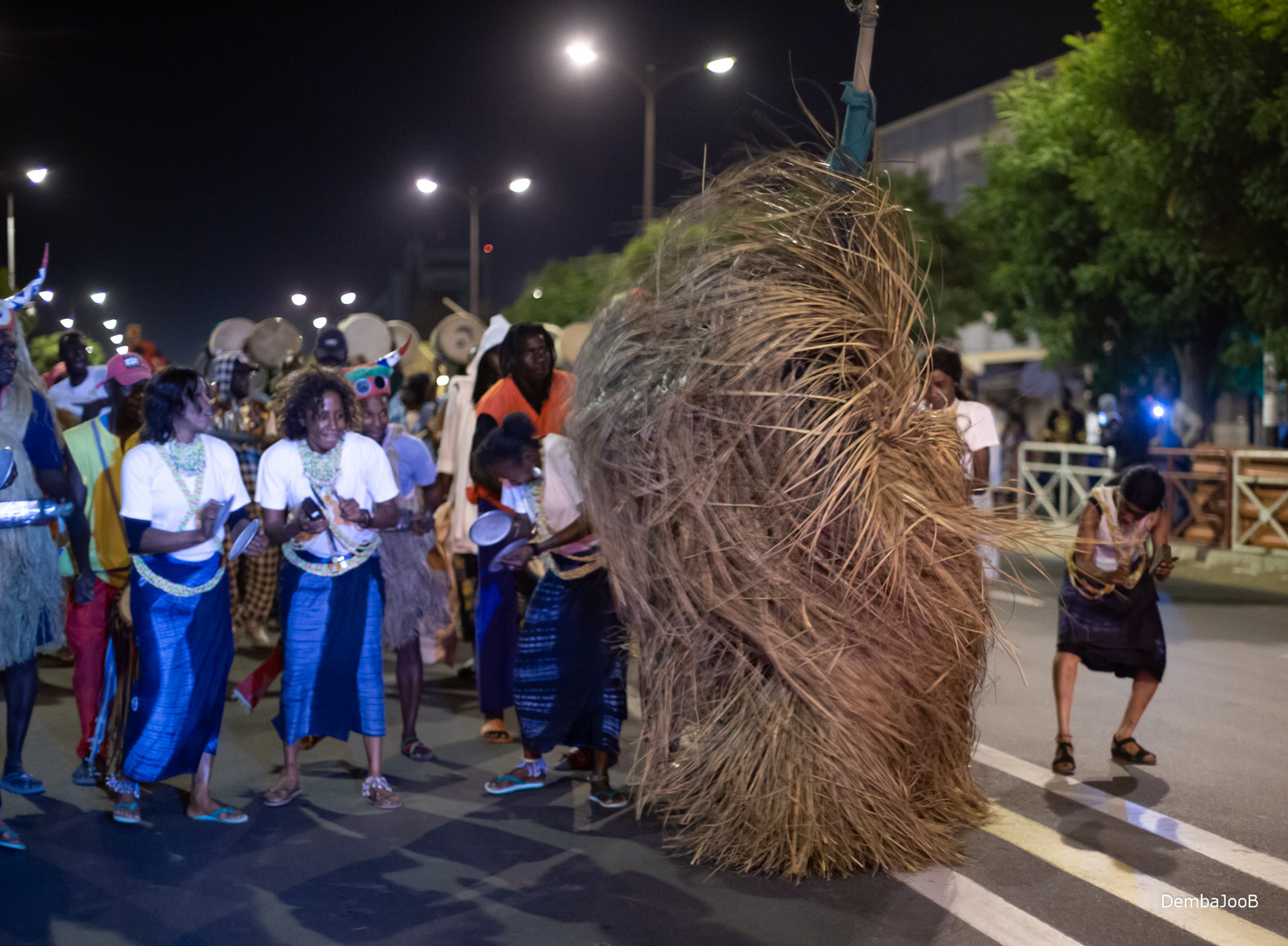 This photo has been taken in the country: Unknown